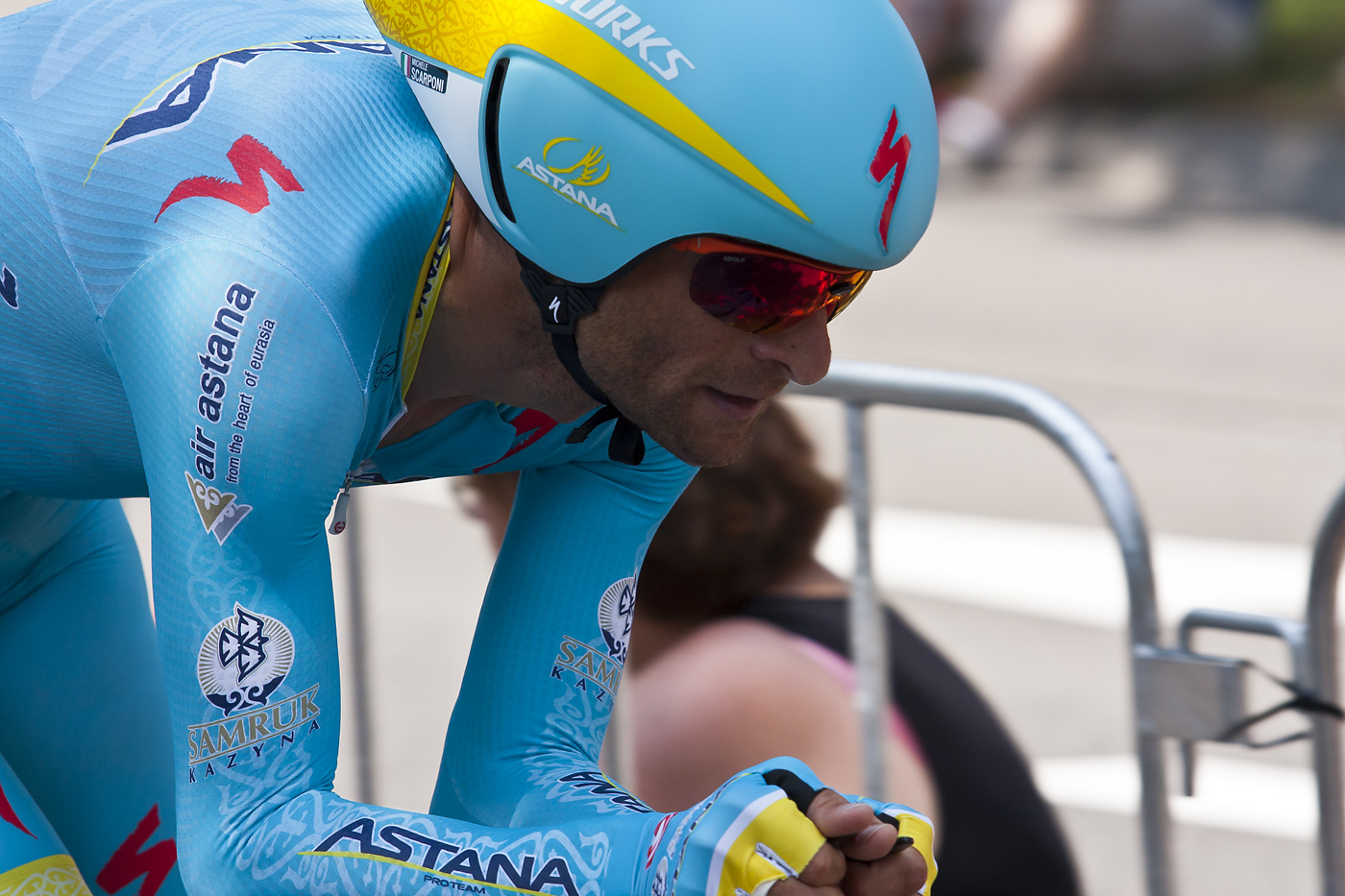 An Italian climber of the Astana team. Contre la Montre (time trial), the first stage of the Tour de France 2015. 18,3 km's in Utrecht, Netherlands.